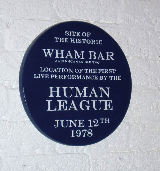 Human League commemorative plaque located in Psalter Lane campus of Sheffield Hallam university. This image represents an Open Plaques entry #5504.